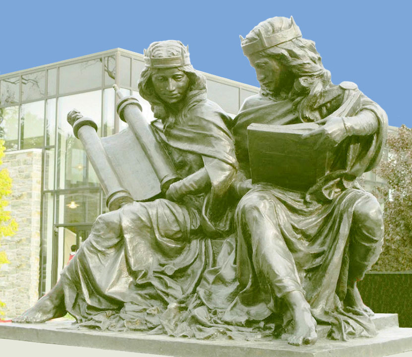 Allegories of Judaism and Christianity. Bronze sculpture. St Joseph's University, Philadephia.